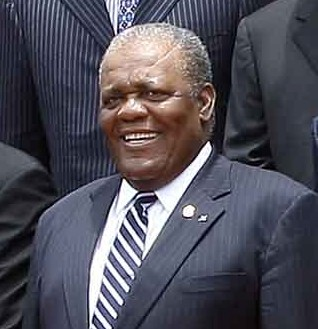 Bahamanian Prime Minister Hubert Ingraham at the 5th Summit of the Americas in Port-of-Spain, Trinidad and Tobago.